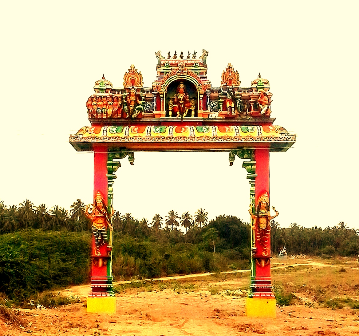 Pidaariyamman Kovil Arch